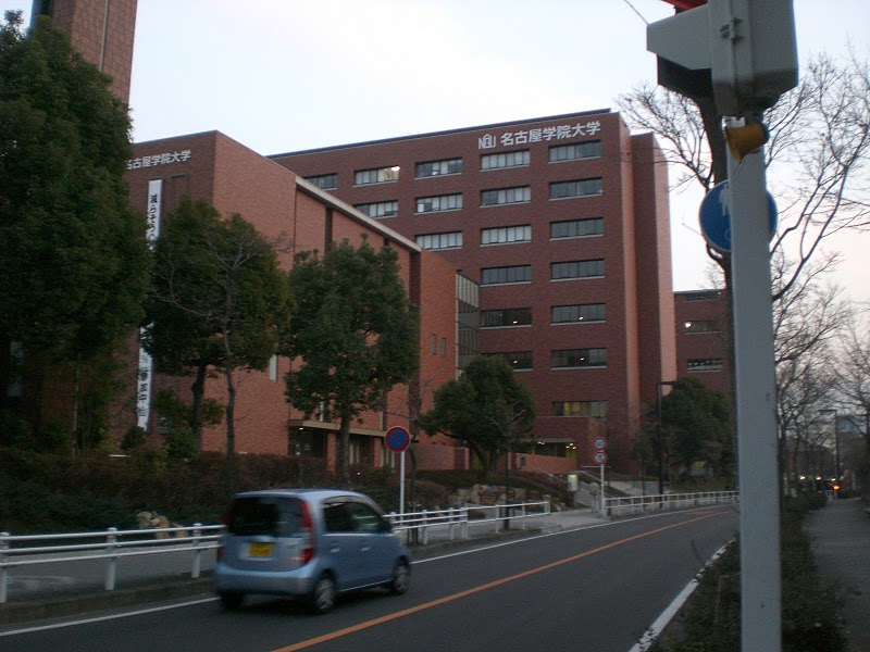 The front of Nagoya Gakuin University in Nagoya, Japan.